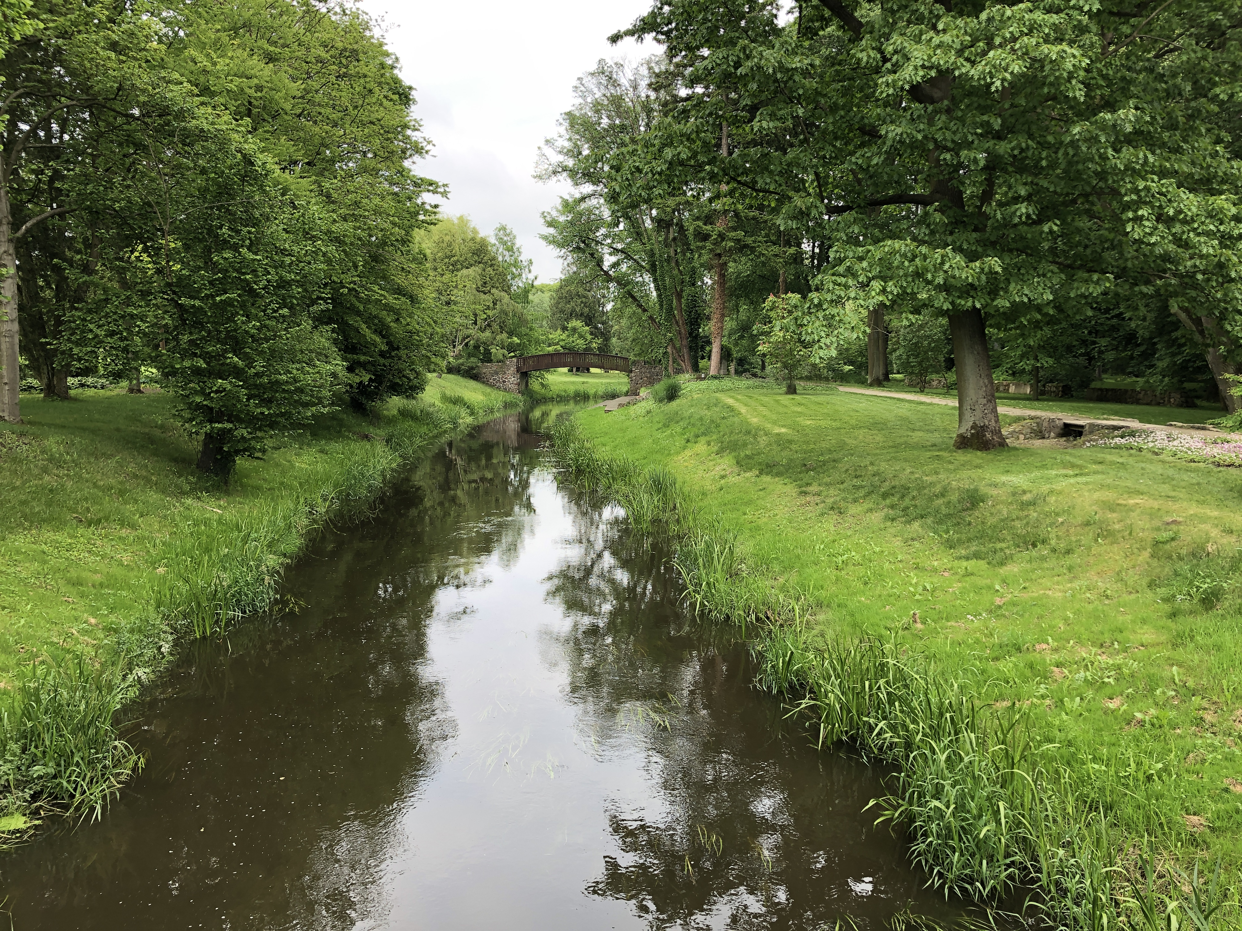 Utrata river in park in Żelazowa Wola